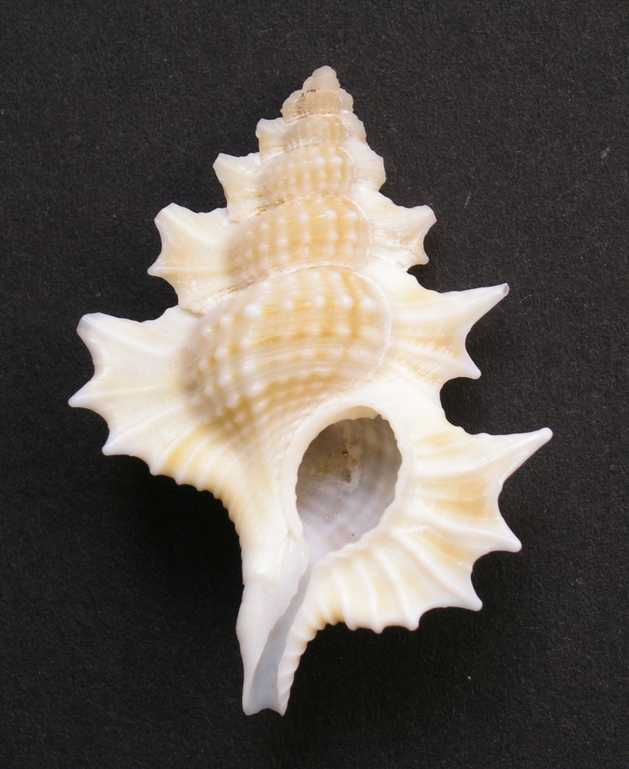 Biplex perca Licence: self-made photo, May 2005